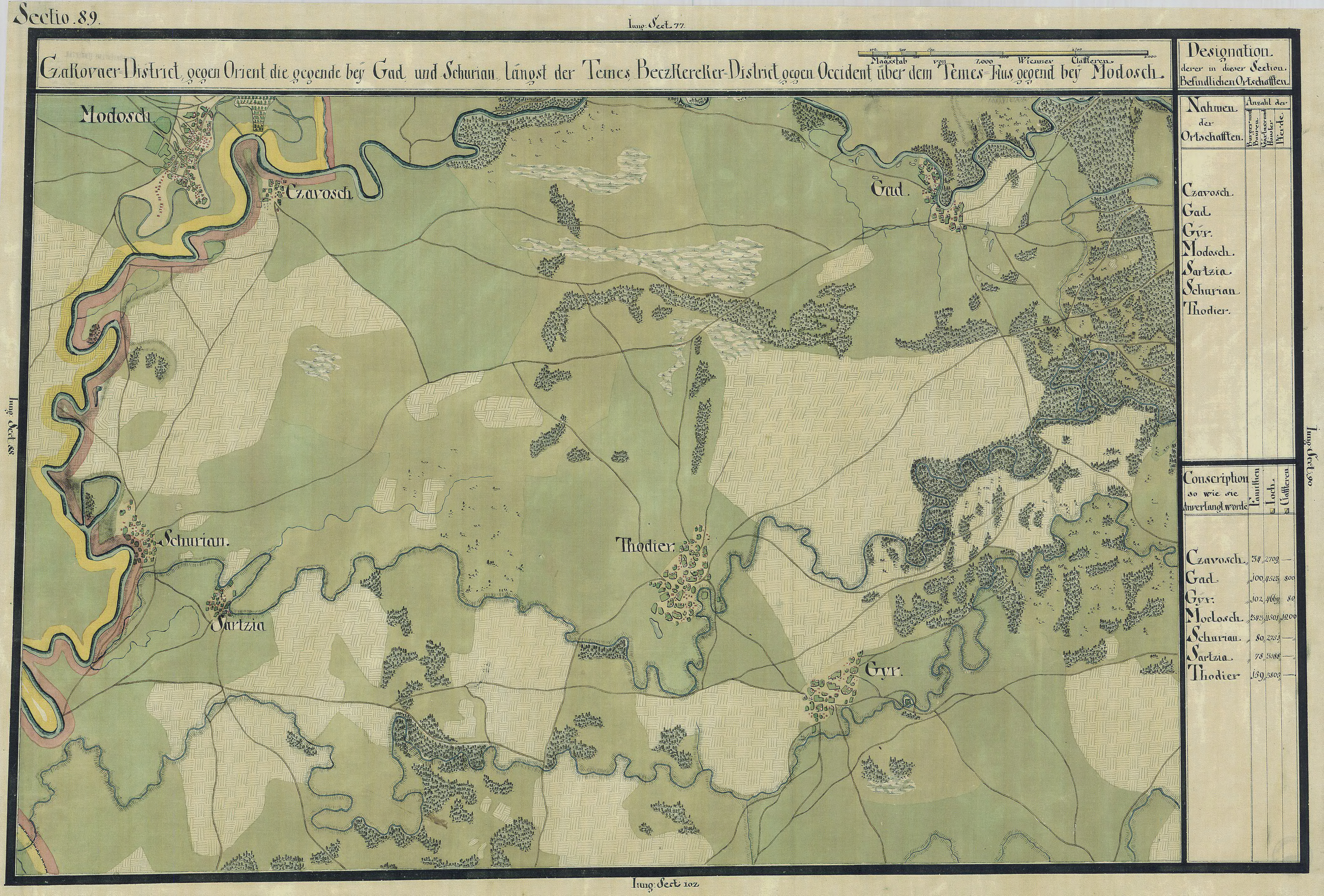 The Banat region in the cadastral maps: Josephinische Landesaufnahme, 1769-72. Josephinische Landaufnahme pg089